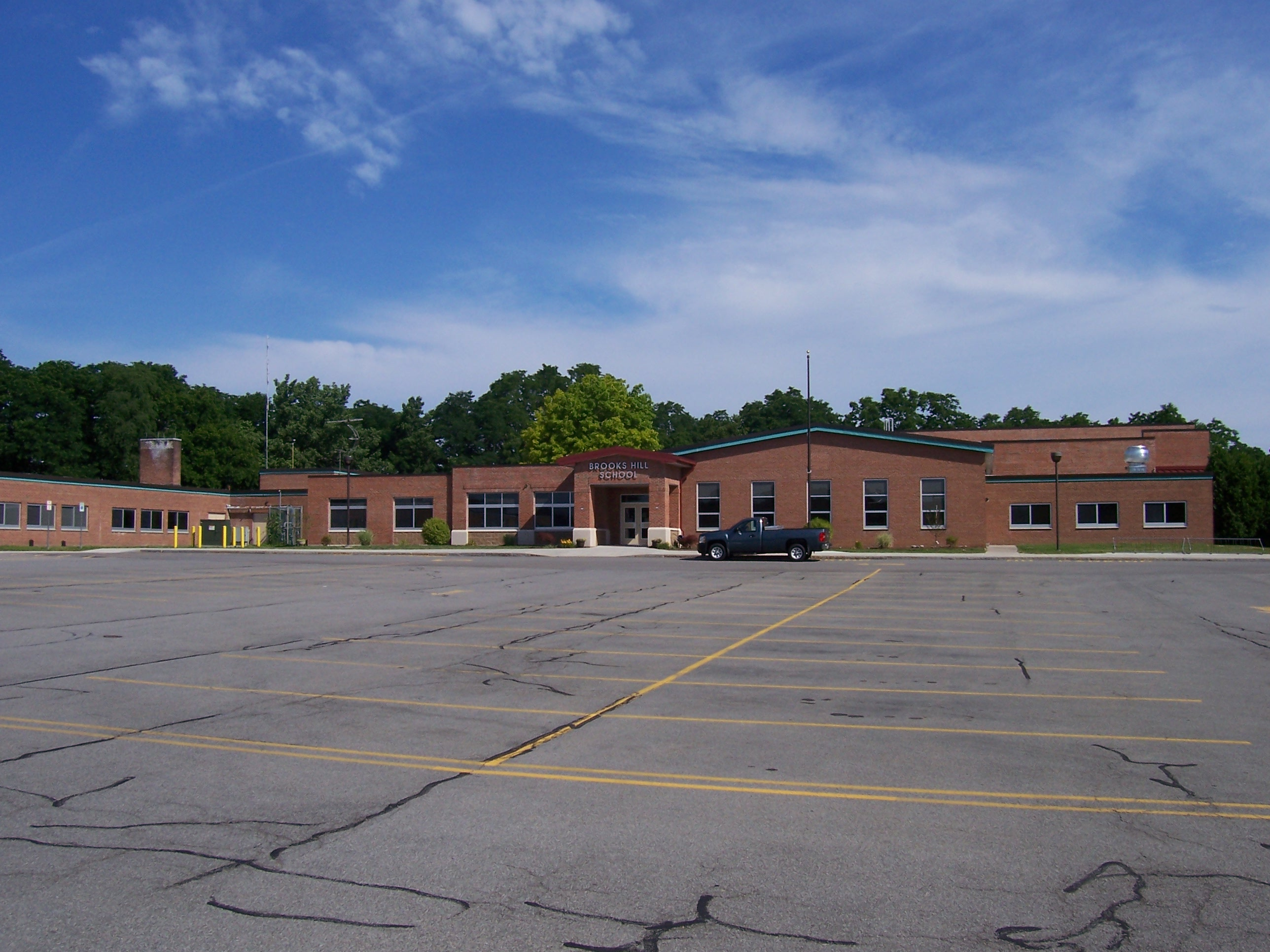 Brooks Hill Elementary School in Fairport, New York